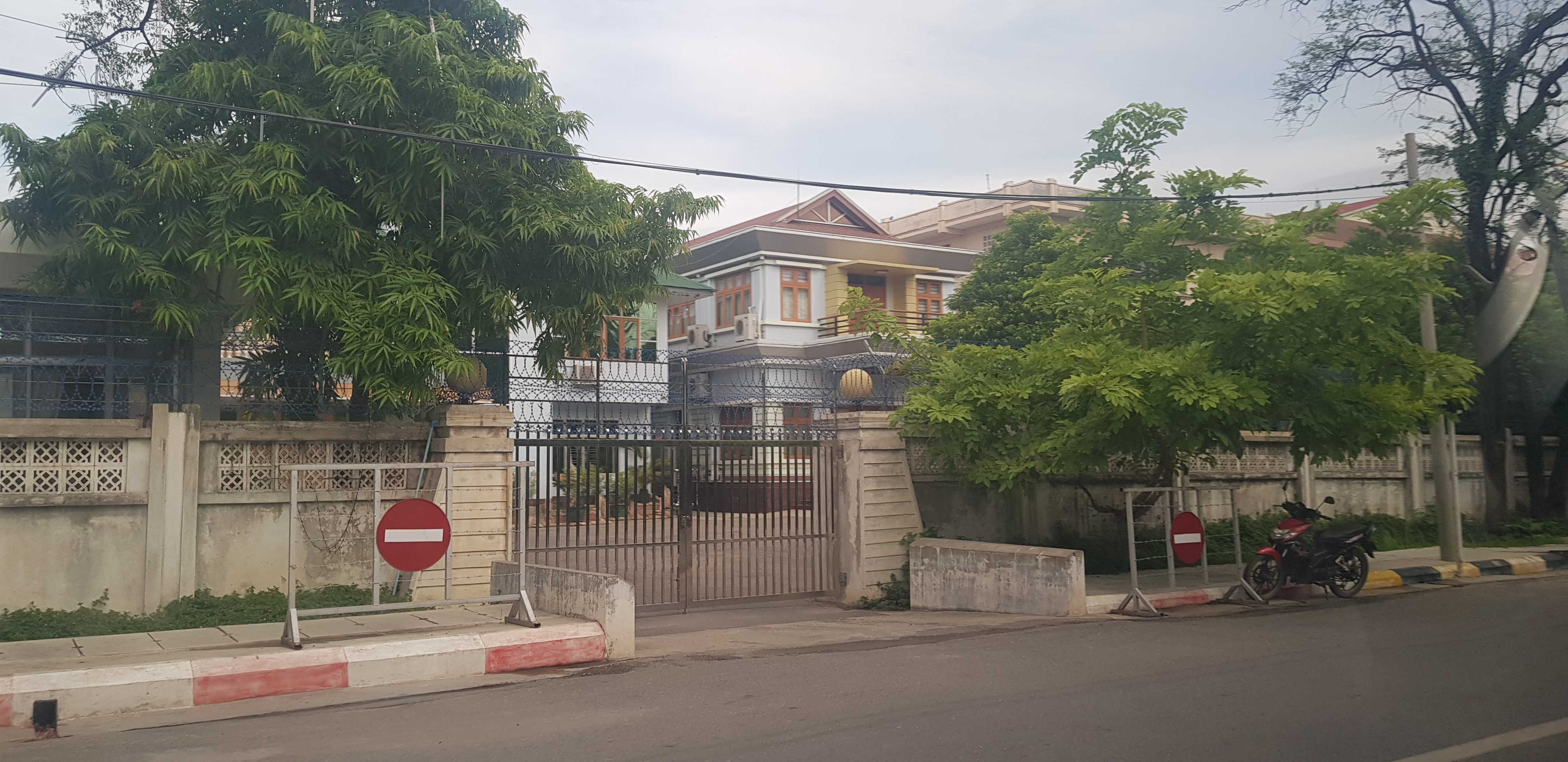 Mandalay Region Government Office မြန်မာဘာသာ: မန္တ​လေးတိုင်းအစိုးရအဖွဲ့ရုံး